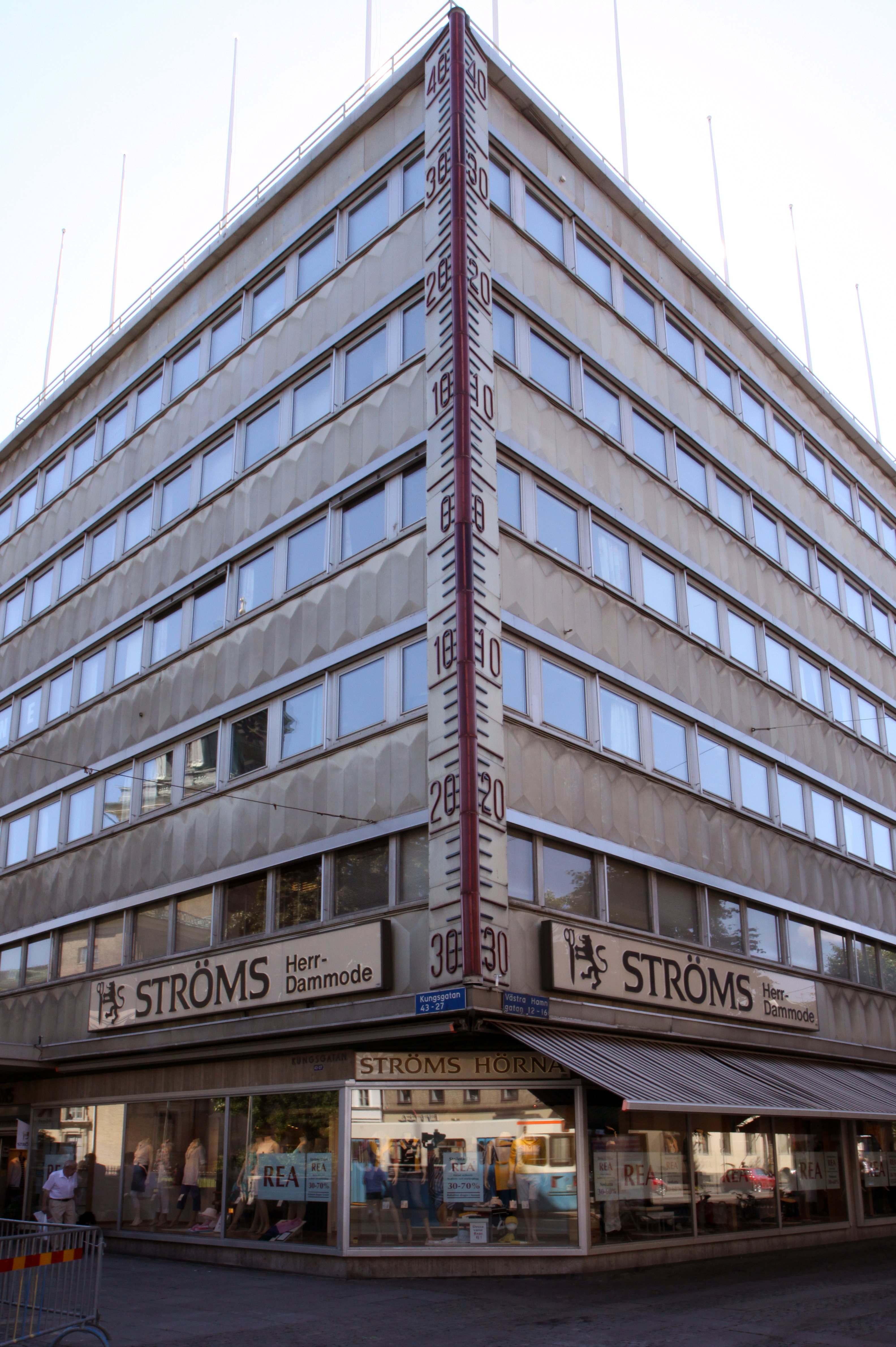 "Ströms hörna", a building from 1935 in Gothenburg with a large neon thermometer on the corner.